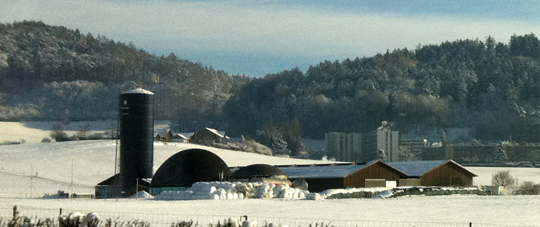 Biogas plant, Ittigen